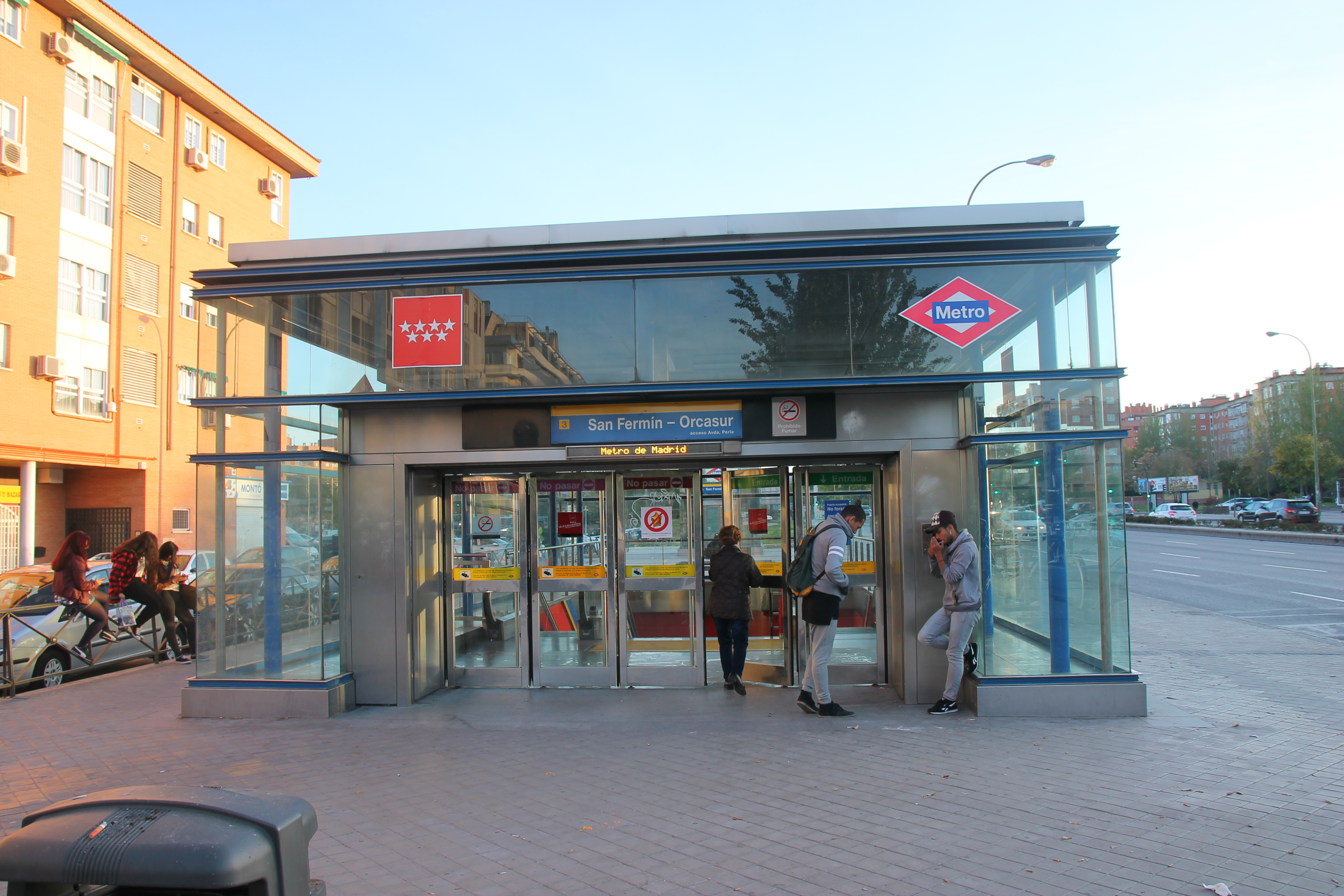 Entrance of the San Fermín – Orcasur metro station in Madrid